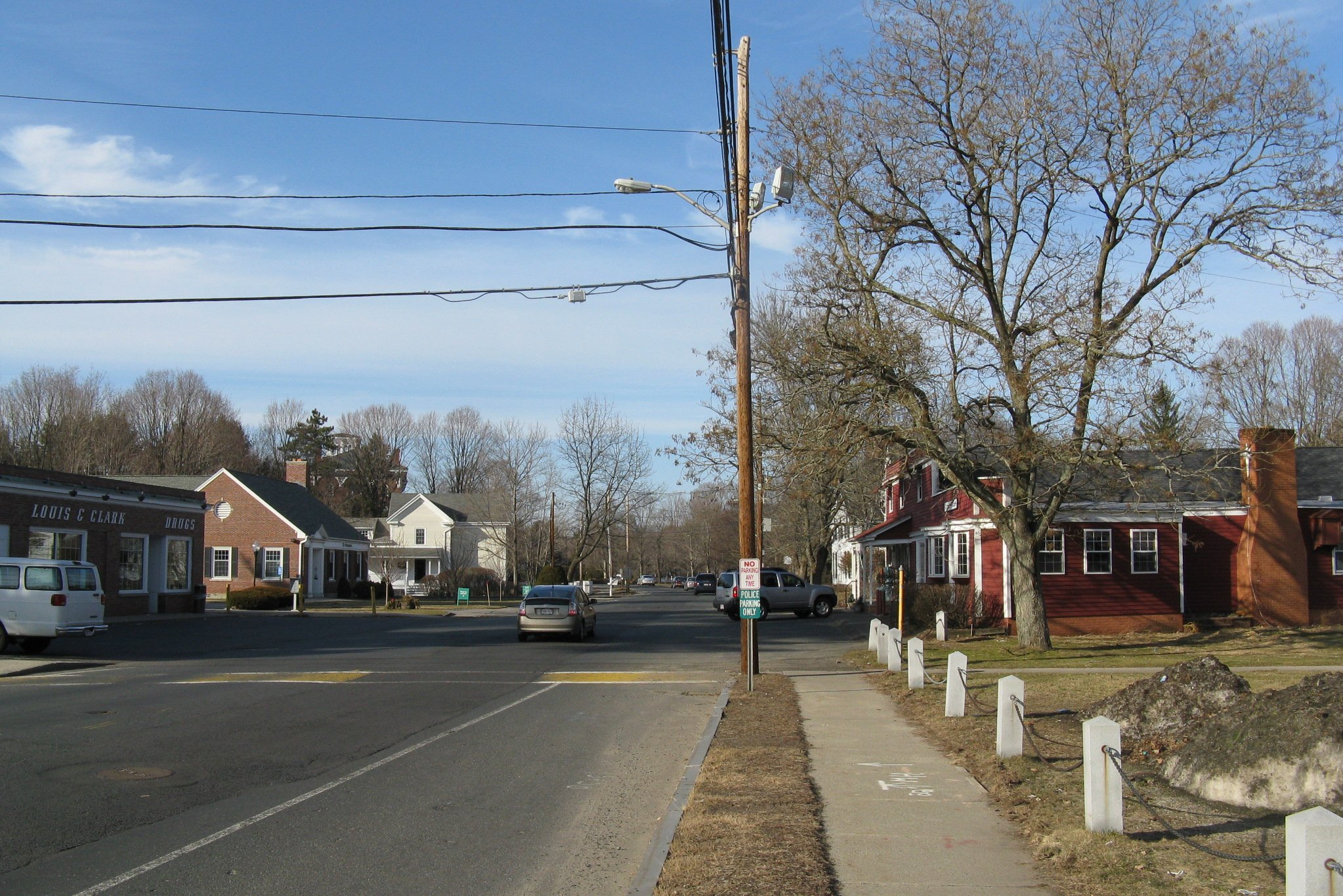 Wilbraham Center, Wilbraham Massachusetts